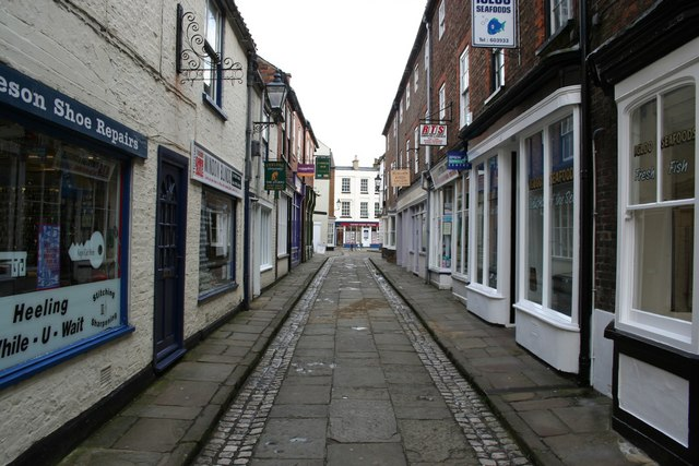 New Lane: Narrow lane between Eastgate and Cornmarket.